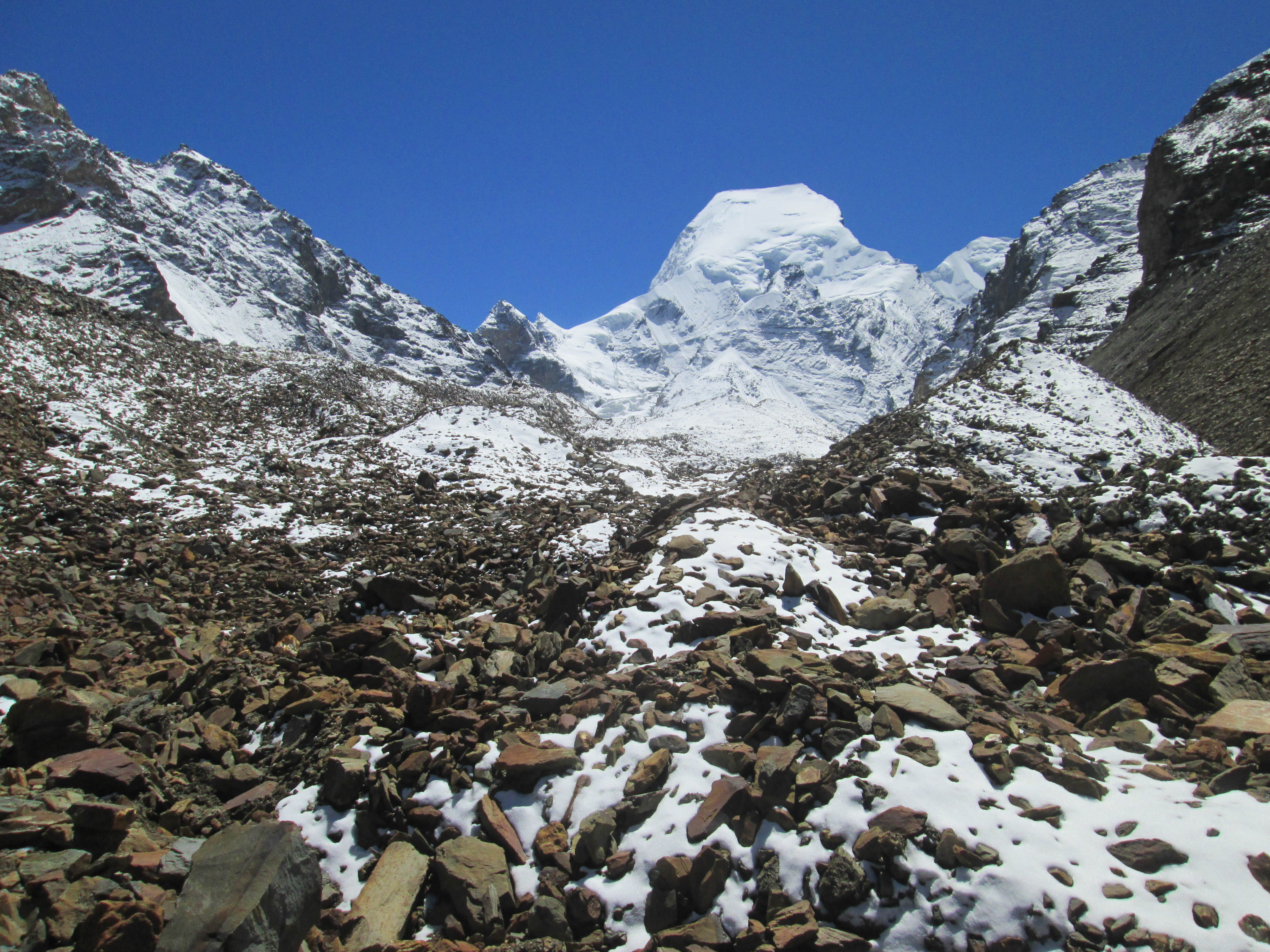 This picture was taken during the Kalindi Khal Trek.Mt Satopanth (7075mt)